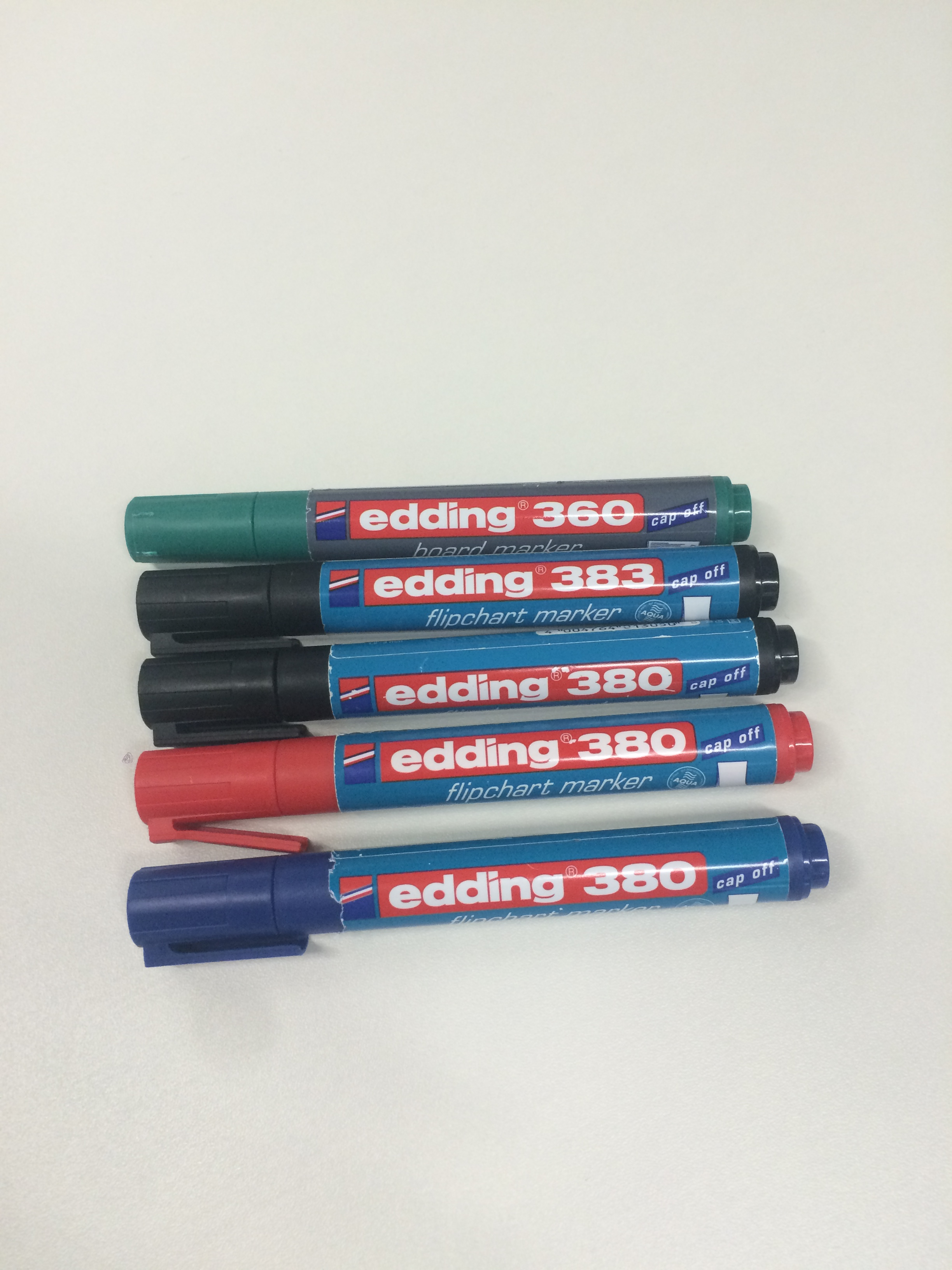 Edding Flipchart Marker